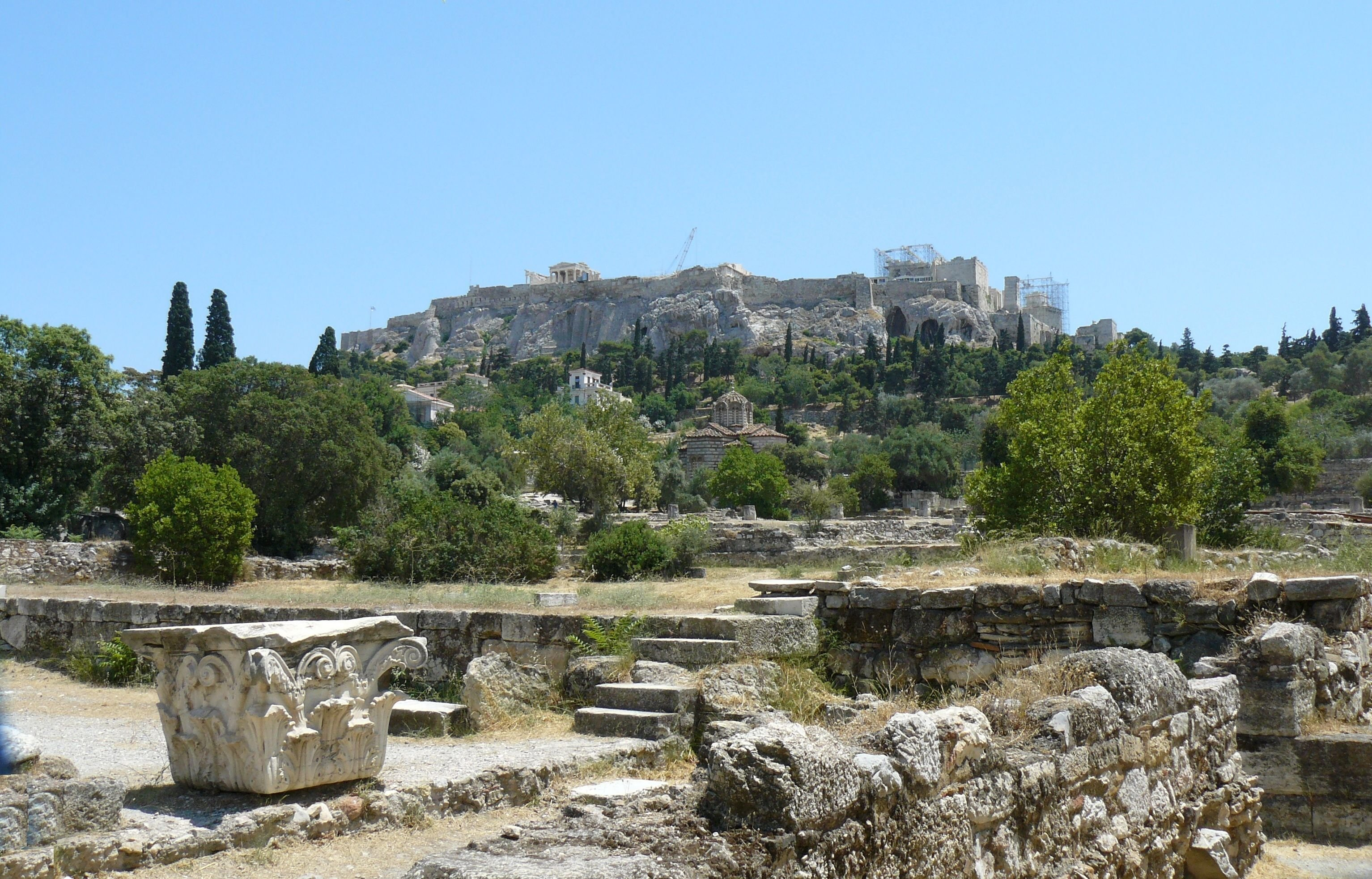 A general view of the Odeon of Agrippa at the ancient Agora of Athens; in background - athenian Acropolis.